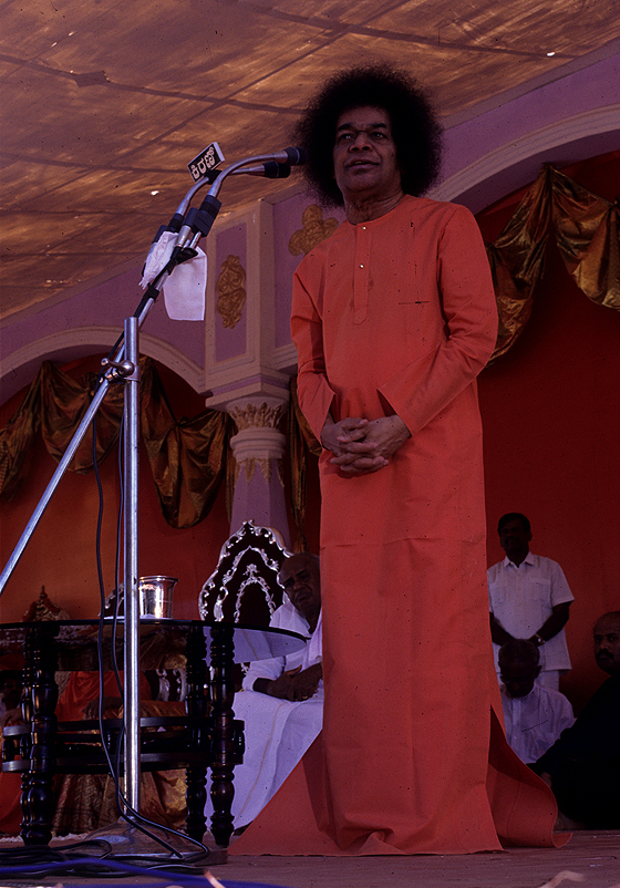 Sathya Sai Baba. ( India, 1986.